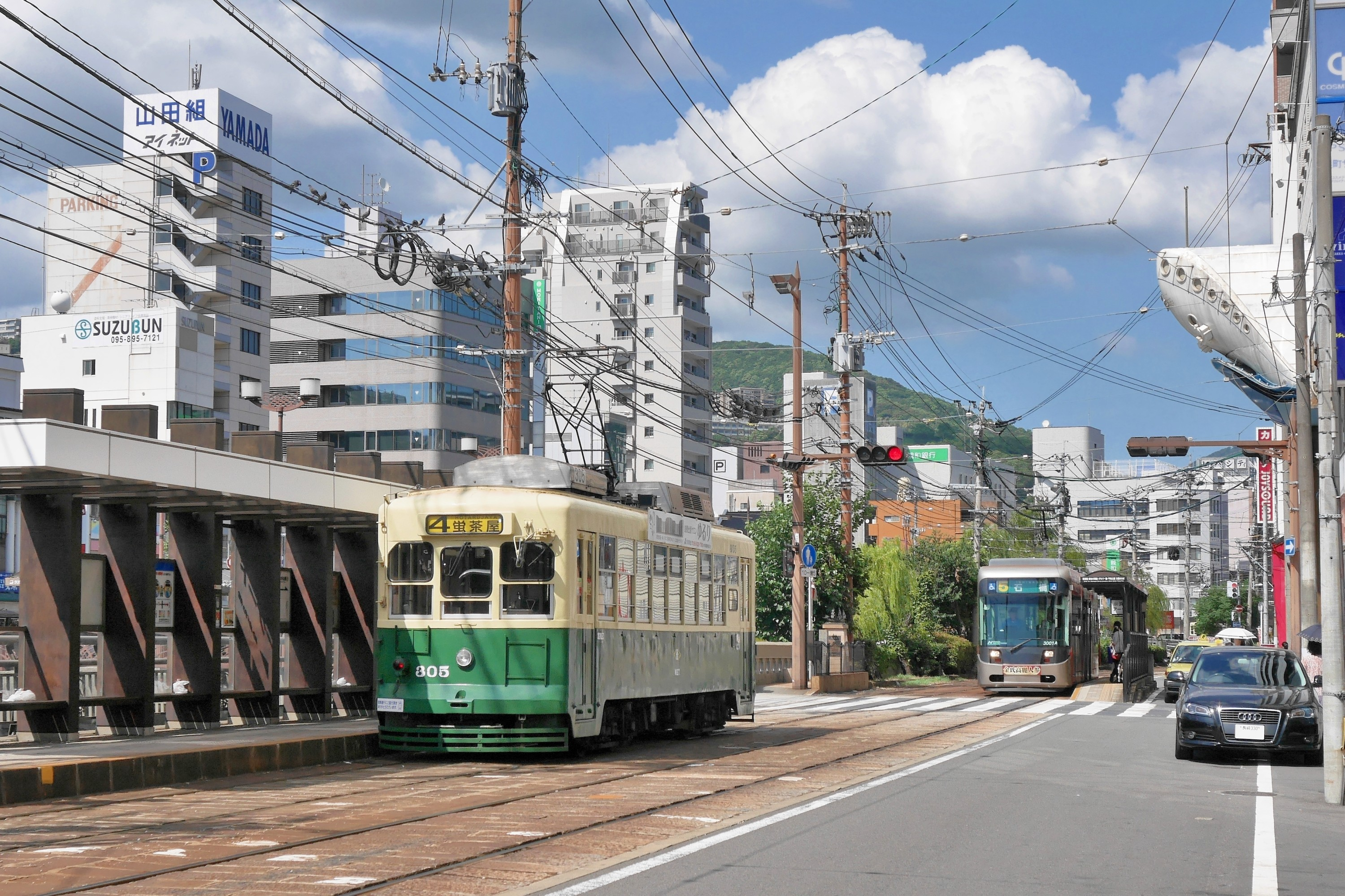 Hamano-machi Arcade Tramstop.